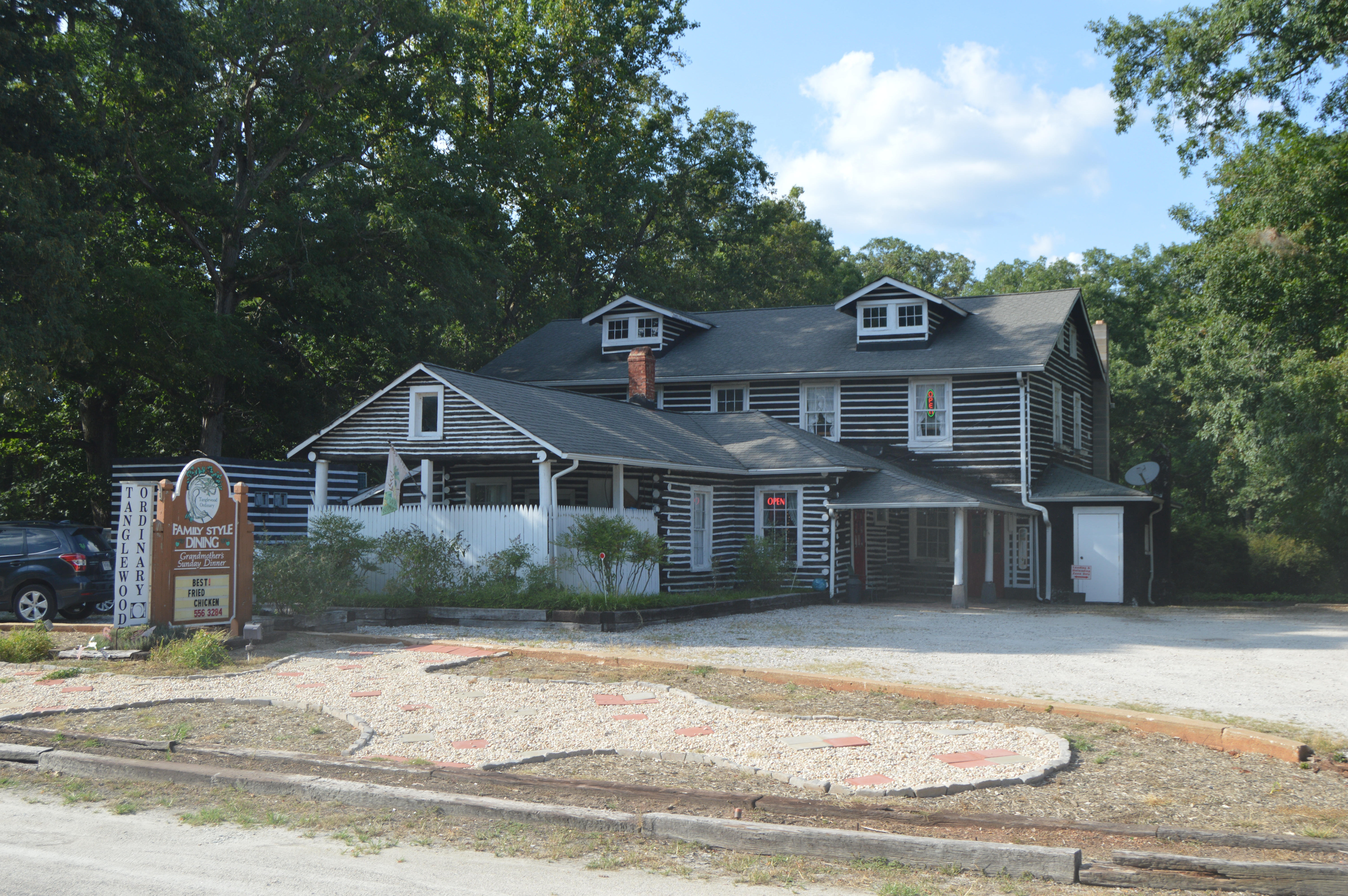 Front of the Tanglewood Ordinary, a restaurant located at 2210 W. State Route 6 in Goochland County, Virginia, United States. Built in 1929, it is listed on the National Register of Historic Places.